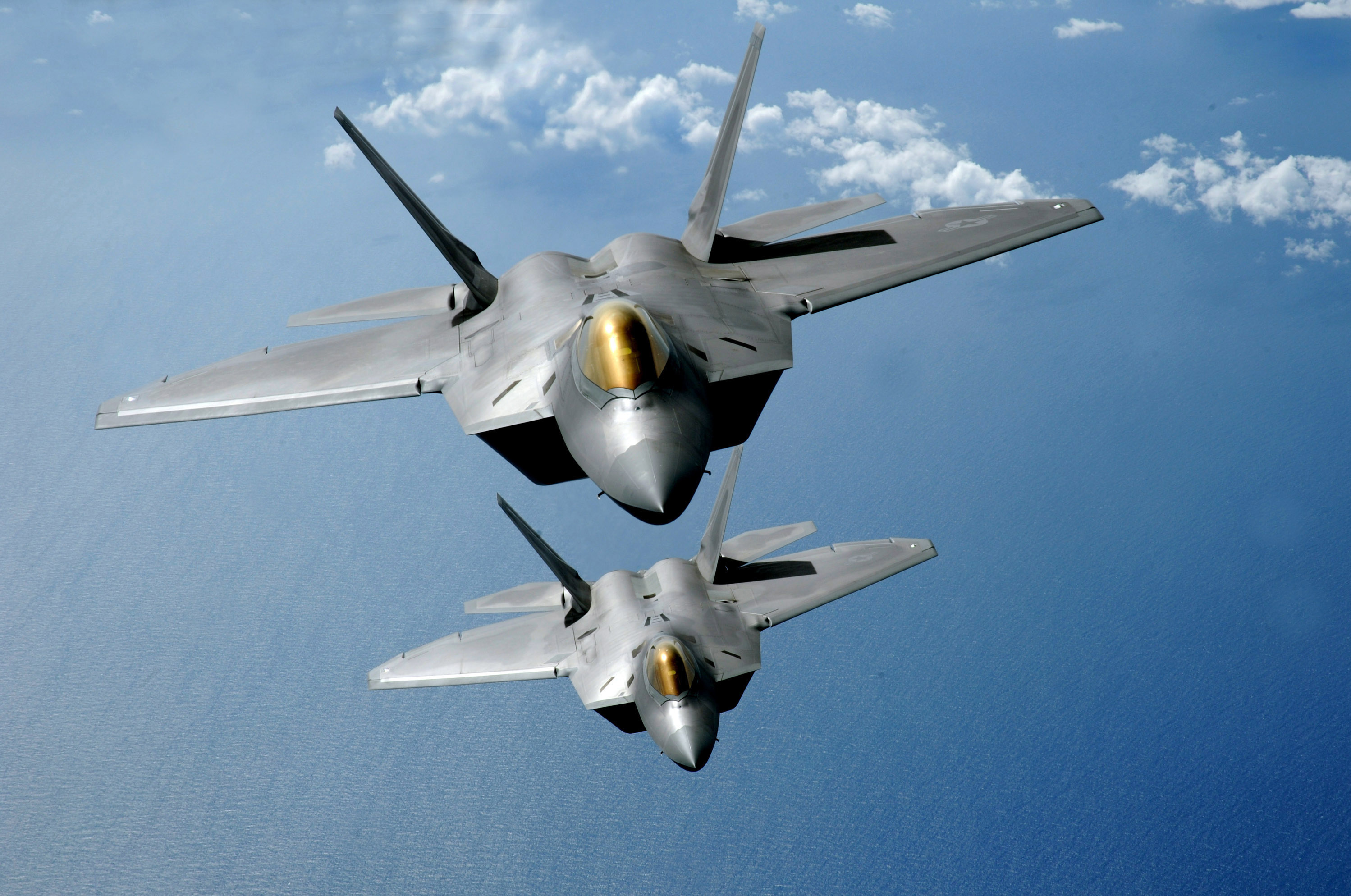 Two F-22 Raptors fly over the Pacific Ocean during a theater security mission on March 9, 2009 as part of a deployment to Andersen Air Force Base, Guam. The Raptors are deployed from Elmendorf AFB, Alaska.